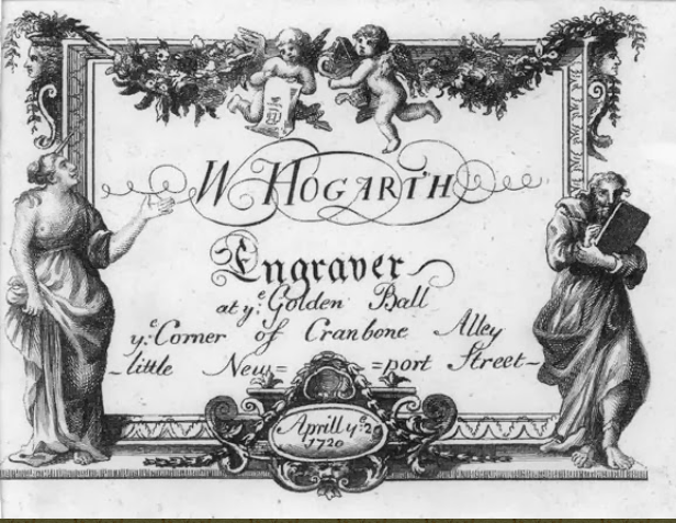 W. Hogarth Engraver at [the] Golden Ball Corner of Cronbone Alley Little Newport Street, trade card.